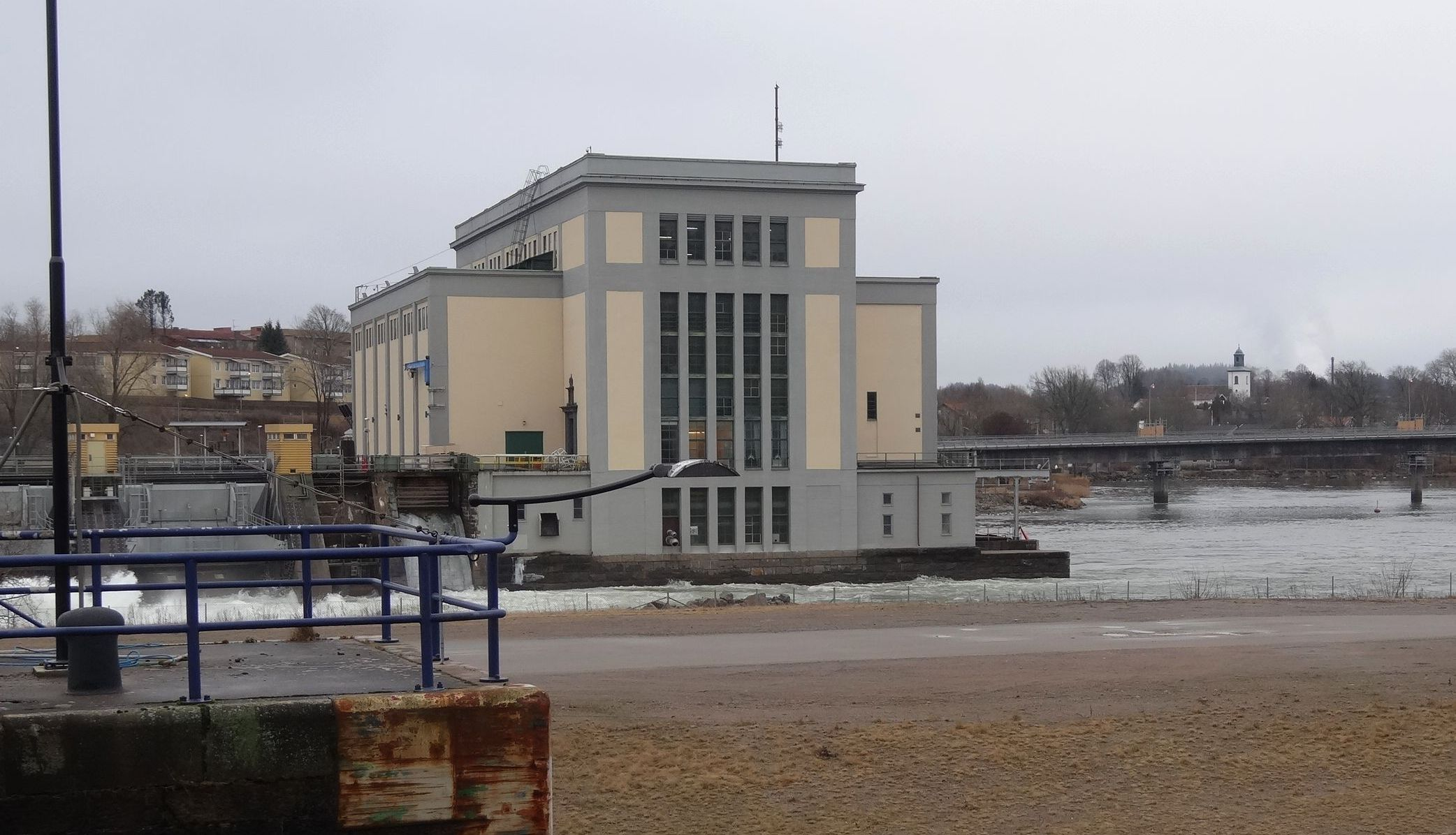 Hydroelectric powerplant in Göta älv at Lilla Edet, Sweden.